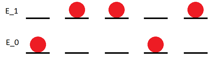 A system consisting of five smaller systems. Each part can be in one of two energy states: E_0 or E_1